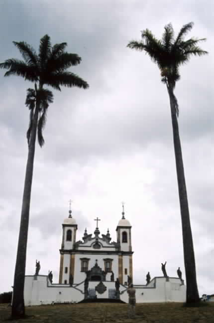 Photographs by Einar Einarsson Kvaran Aleijadinho